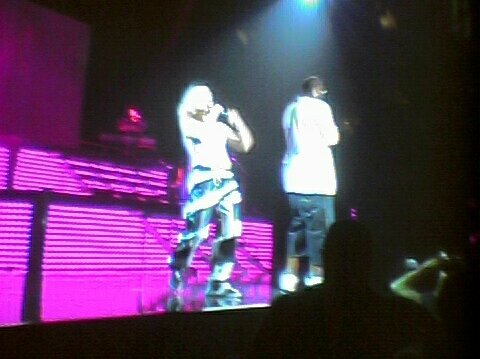 Gwen Stefani and Slim Thug performing "Luxurious"